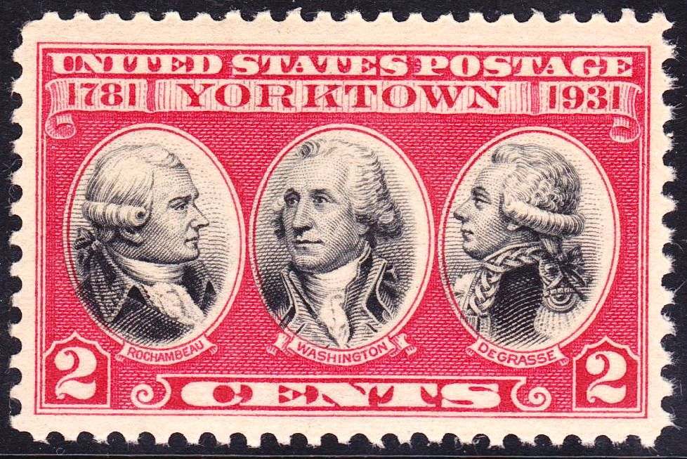 US Postage Stamp, 1931 issue depicting Yorktown heros, Battle of Yorktown commemoration, 2c. American History. American Revolutionary War.